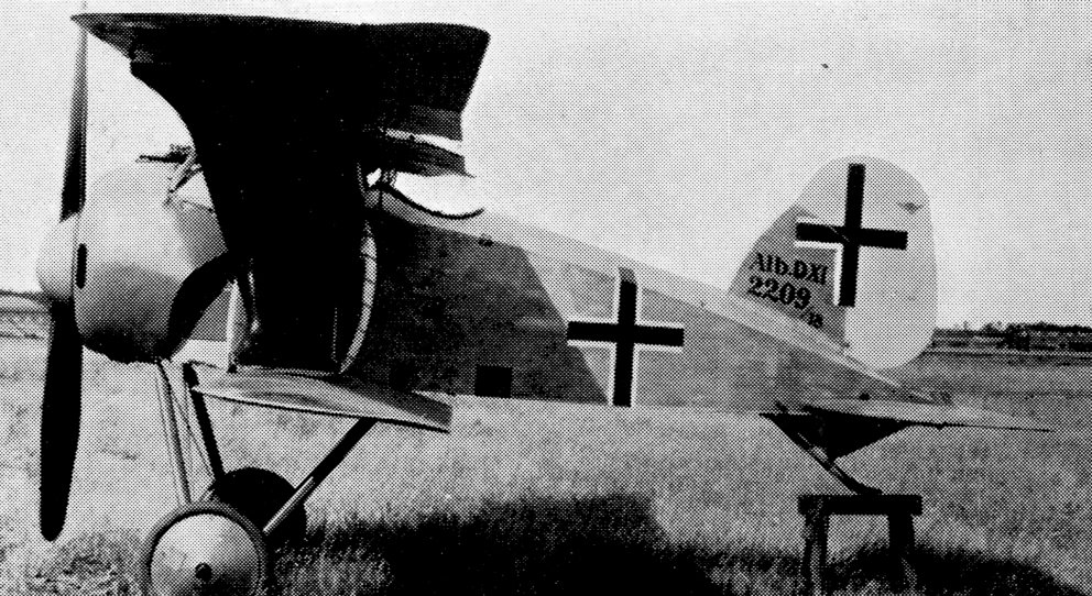 Small biplane fighter aircraft in 1918 German markings